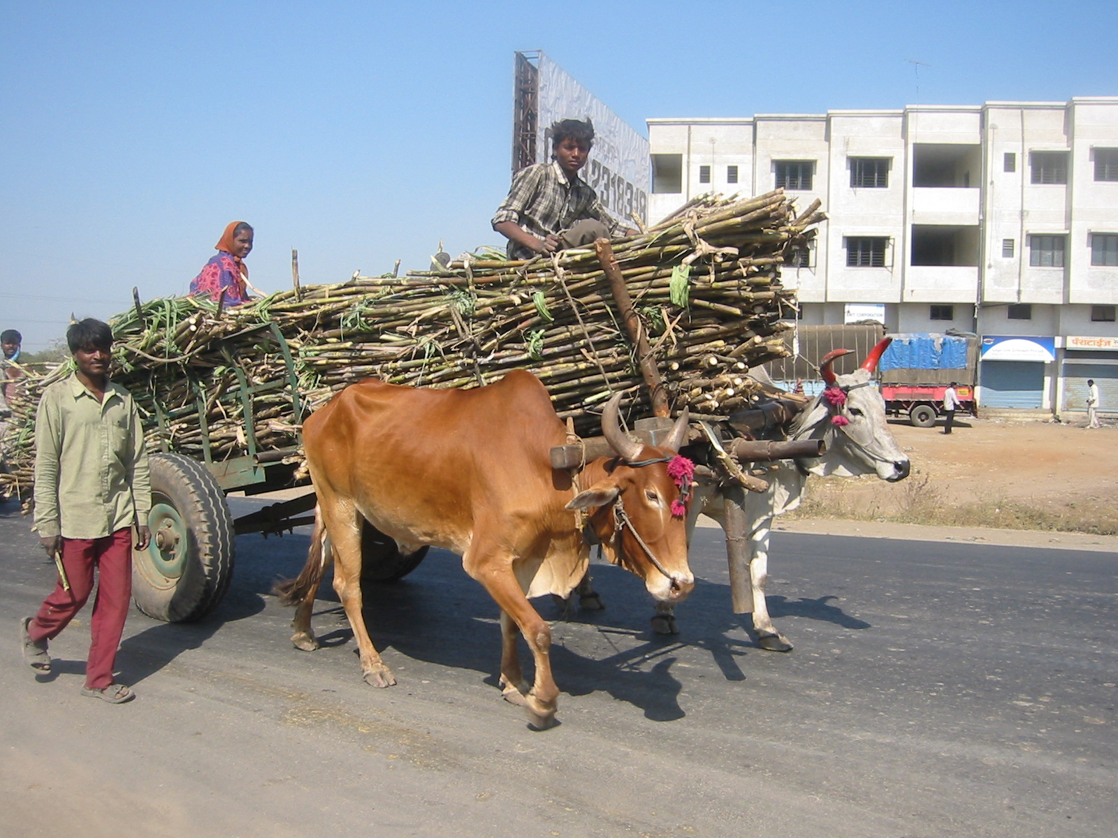 Sugar cane bullock cart, Maharashtra, India.